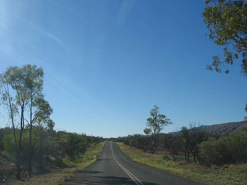 Namatjira Drive in Northern Territory East of Glen Helen